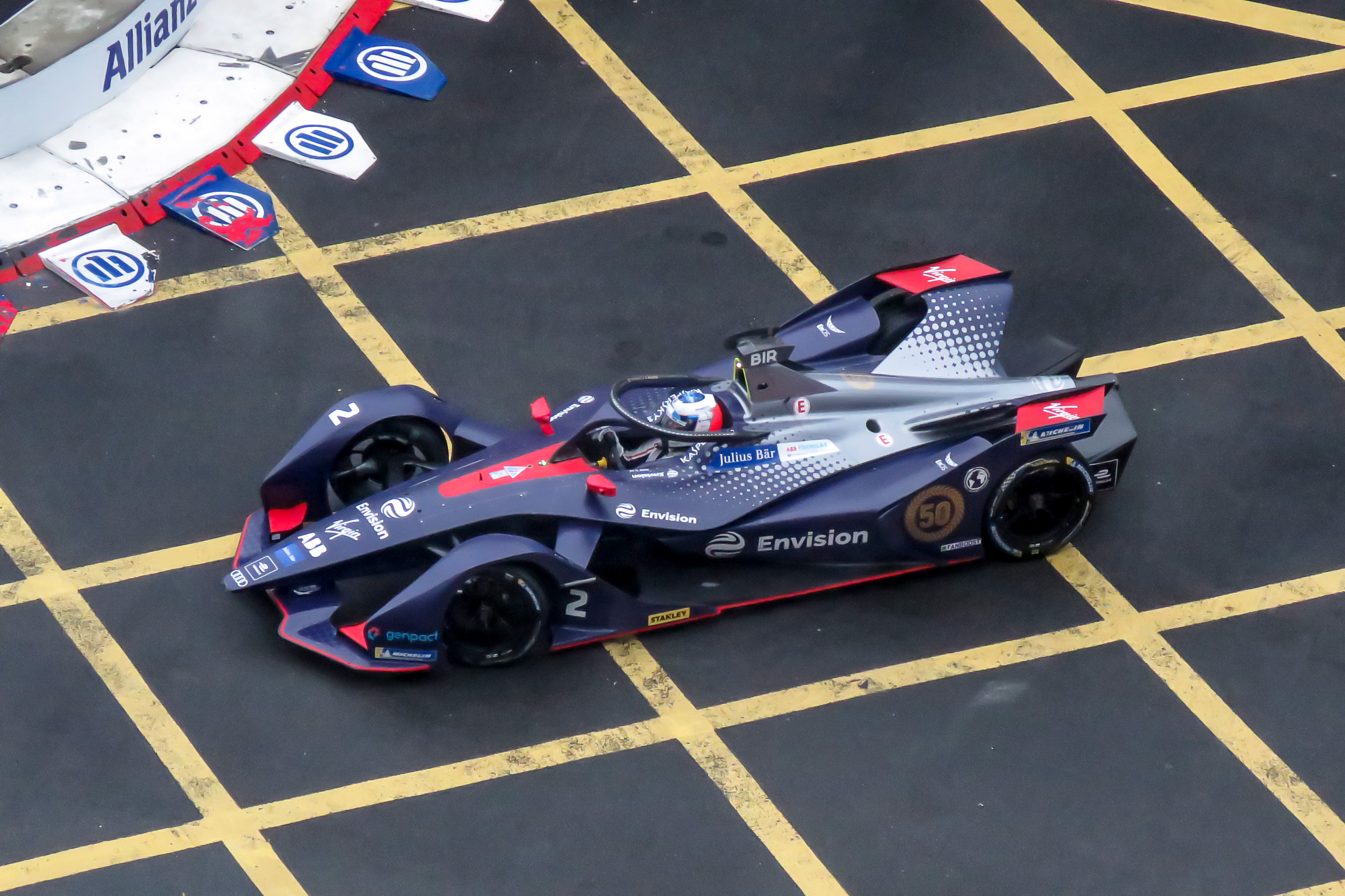 Later it hit Lotterer...